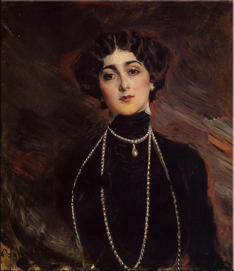 Portrait of Natalina Cavalieri